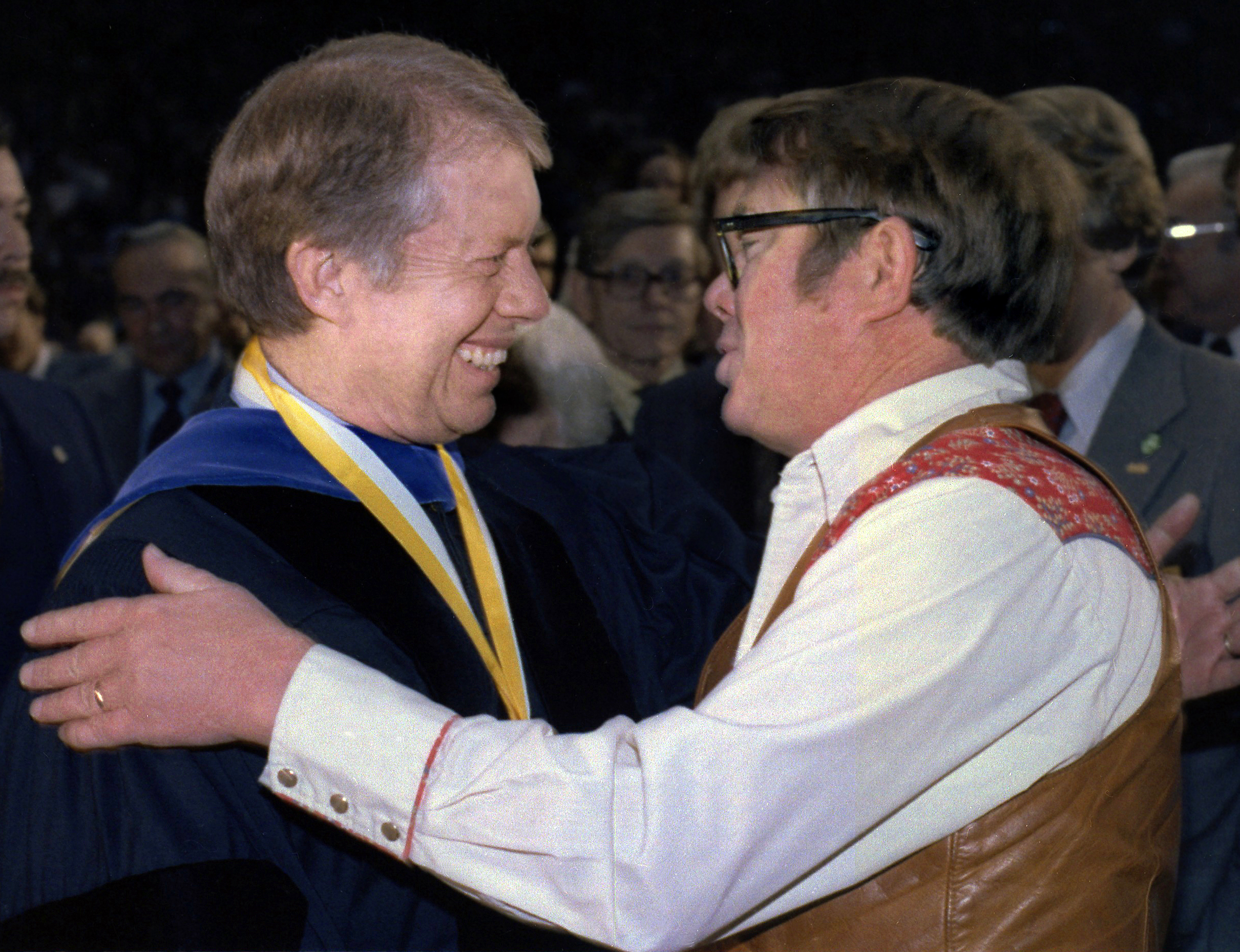 Jimmy Carter greets his brother, Billy Carter, at the commencement ceremonies at Georgia Institute of Technology in Atlanta, GA.